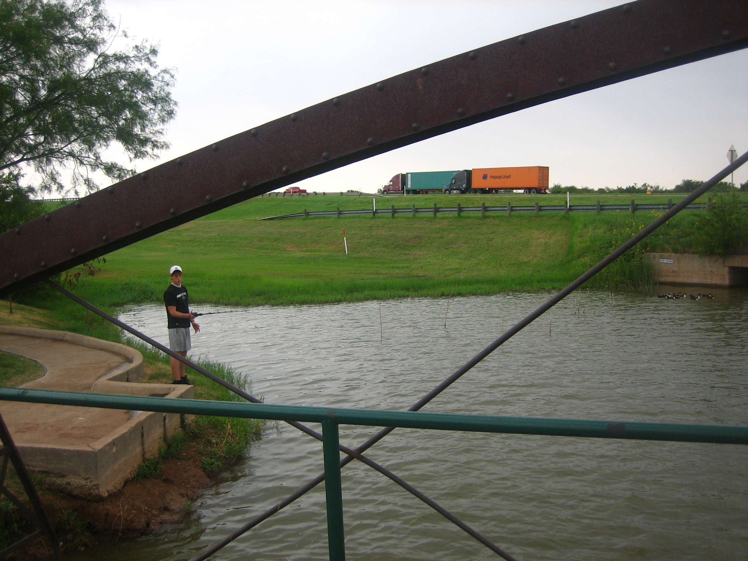 I took photo on July 16, 2008.Billy Hathorn (talk) 02:42, 24 July 2008 (UTC)